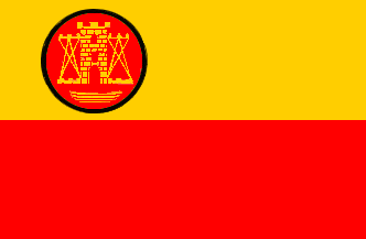 Flag of Memelland, 1920-1923(-?)